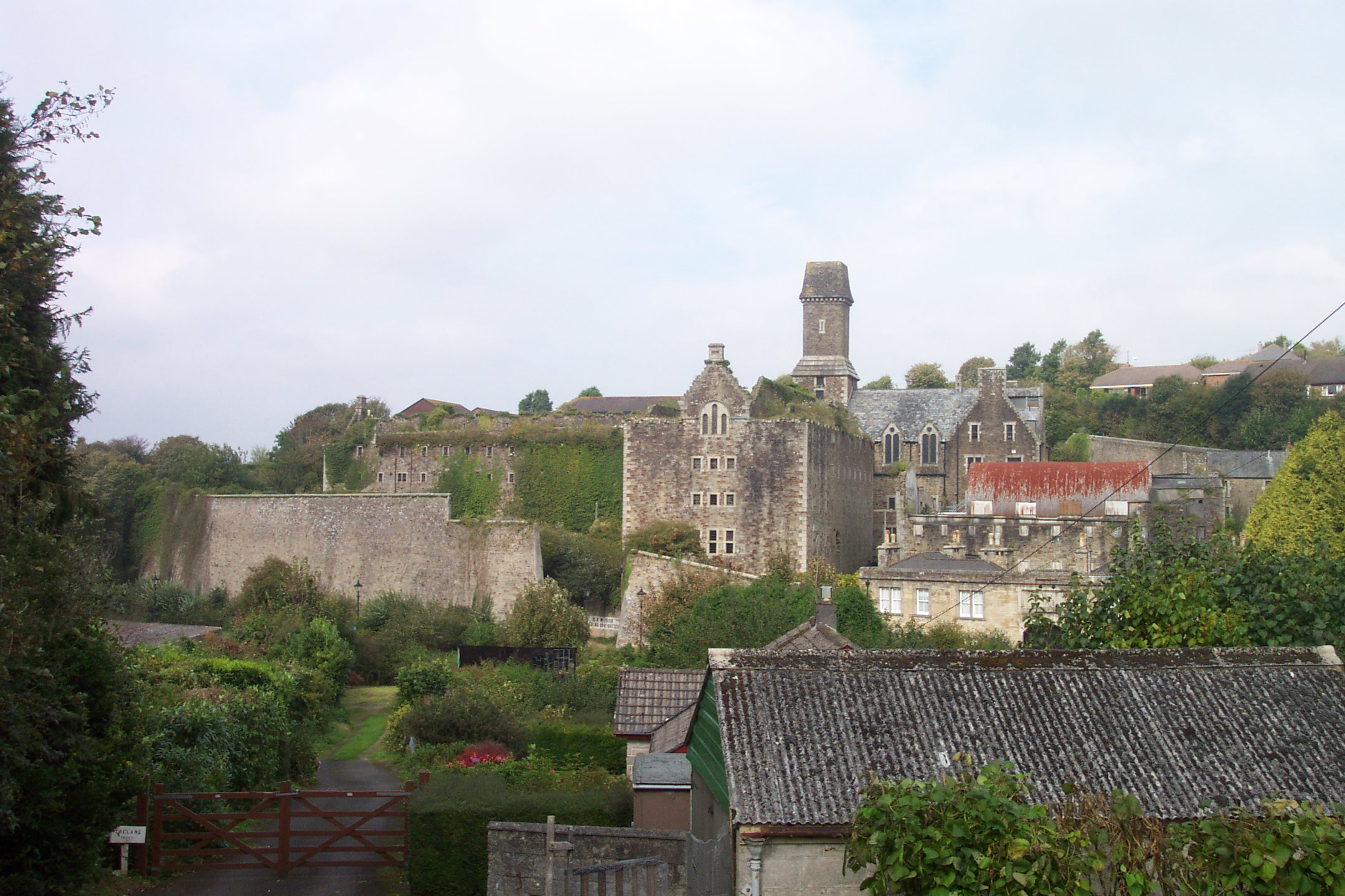 Bodmin Jail seen from Cardell Road, Bodmin, Cornwall, UK. For more information, see Wikipedia article Bodmin Jail.